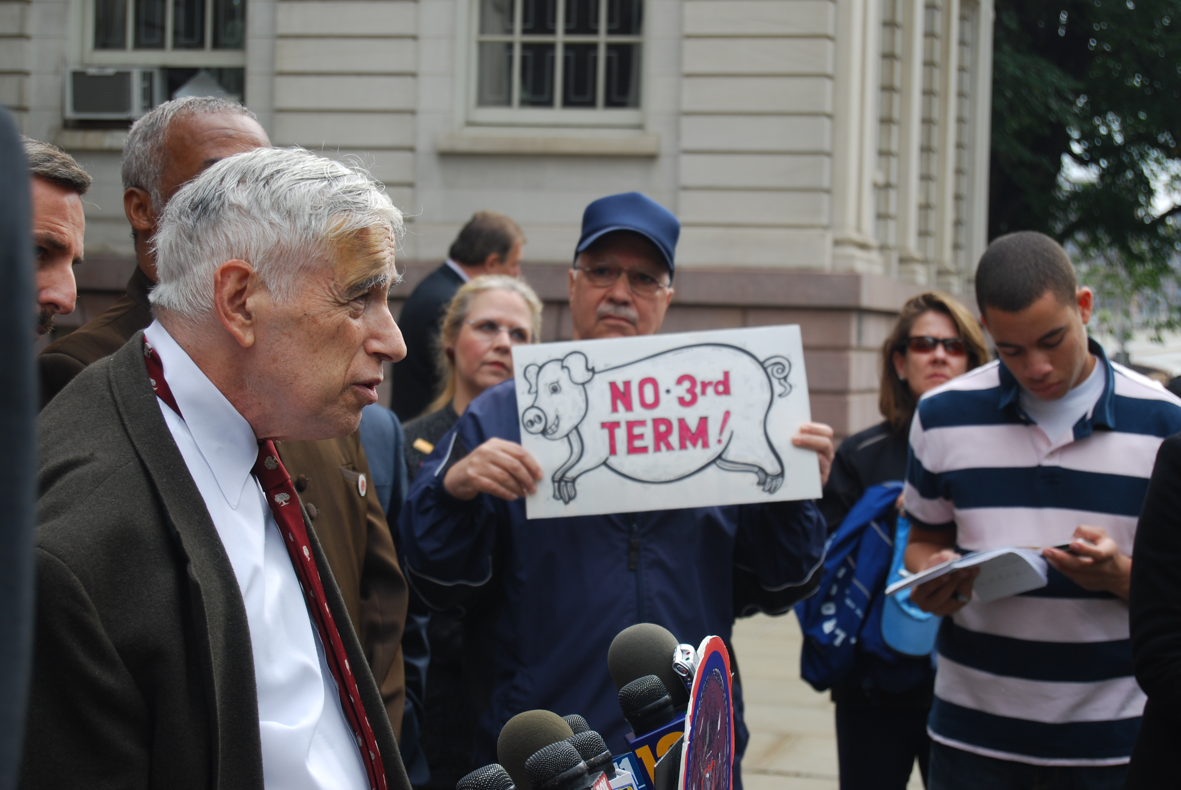 Former NYC Parks Commissioner Henry Stern (left), 2008.